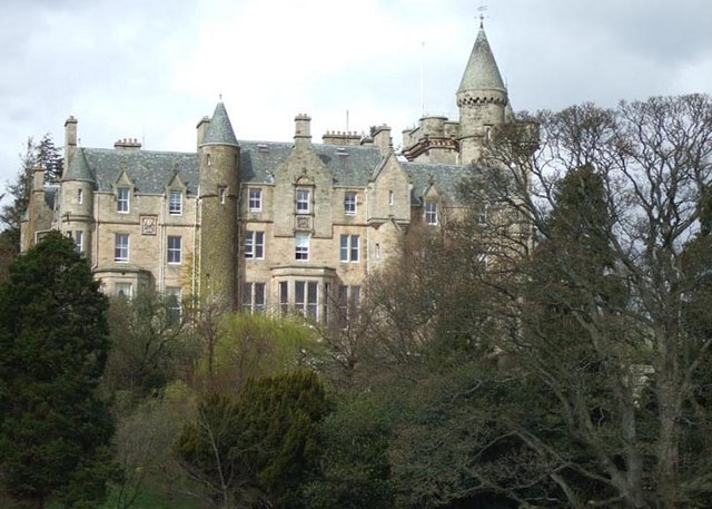 Blair Drummond House Once a baronial pile. The house belongs to the Camphill Trust and is now a centre for adults with learning difficulties. History: More about the area